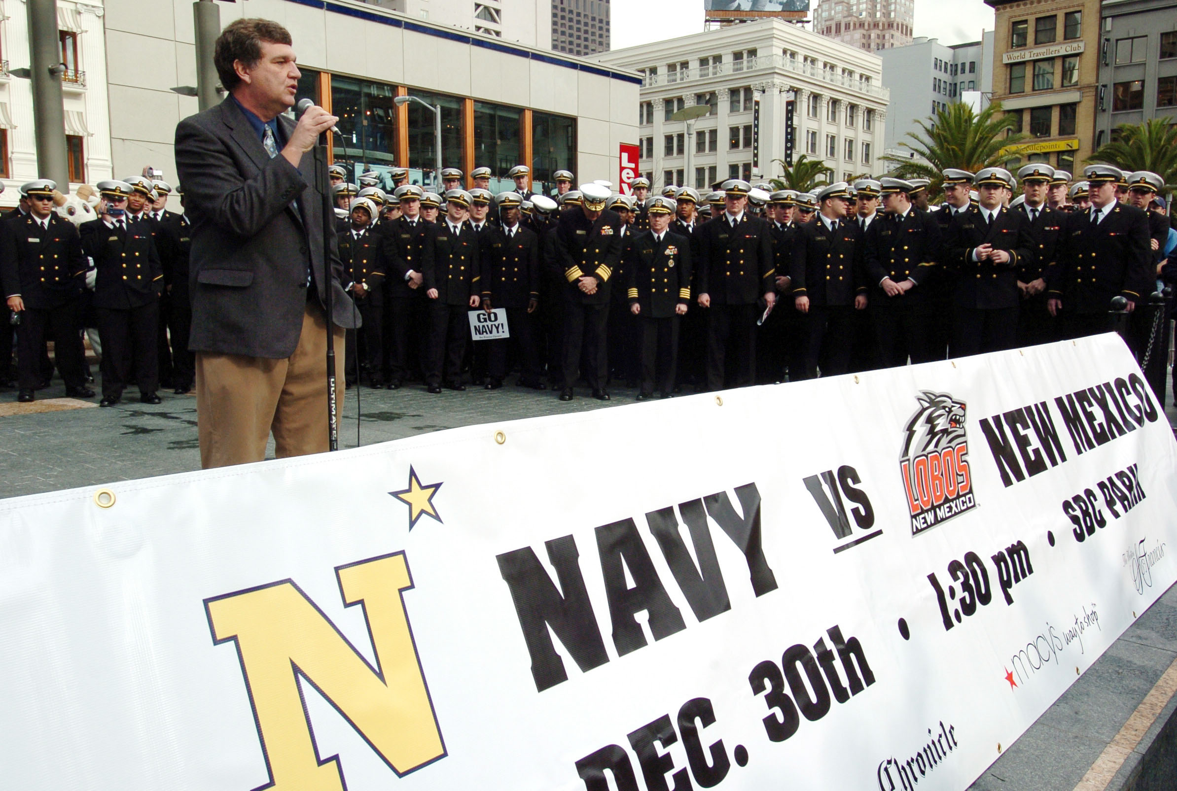 San Francisco, Calif. (Dec. 29, 2004) - U.S. Naval Academy Head Football Coach Paul Johnson delivers remarks during a pep-rally in the San Francisco Union Square. The Midshipmen of Navy (9-2) will take on the Lobos of New Mexico (7-4) in the Emerald Bowl, Dec. 30. A Navy win will give the Midshipmen 10 wins for the just the second time in school history and the first time in 99 years. U.S. Navy photo by Damon J. Moritz (RELEASED)